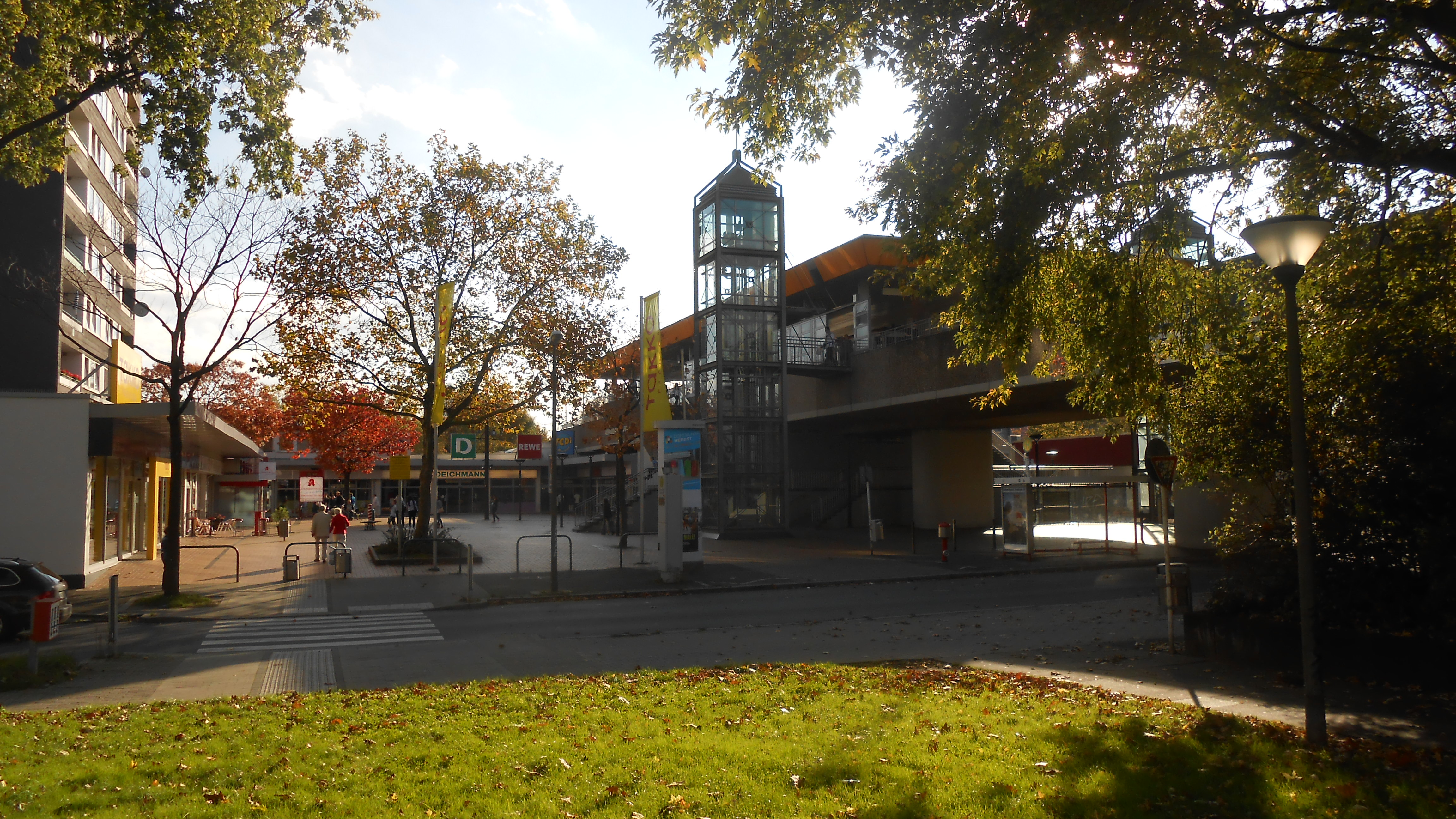 Sunday evening in autumn 2014, in the pedestrian zone of the newer part of Scharnhorst